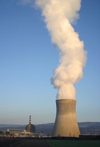 Leibstadt Nuclear Power Plant